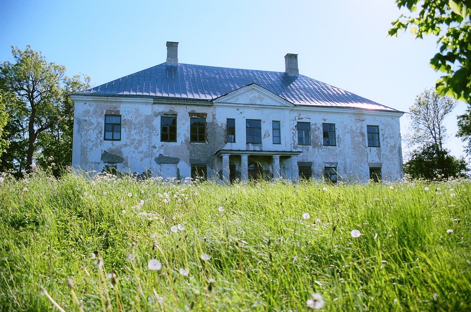 Käesalu manor house